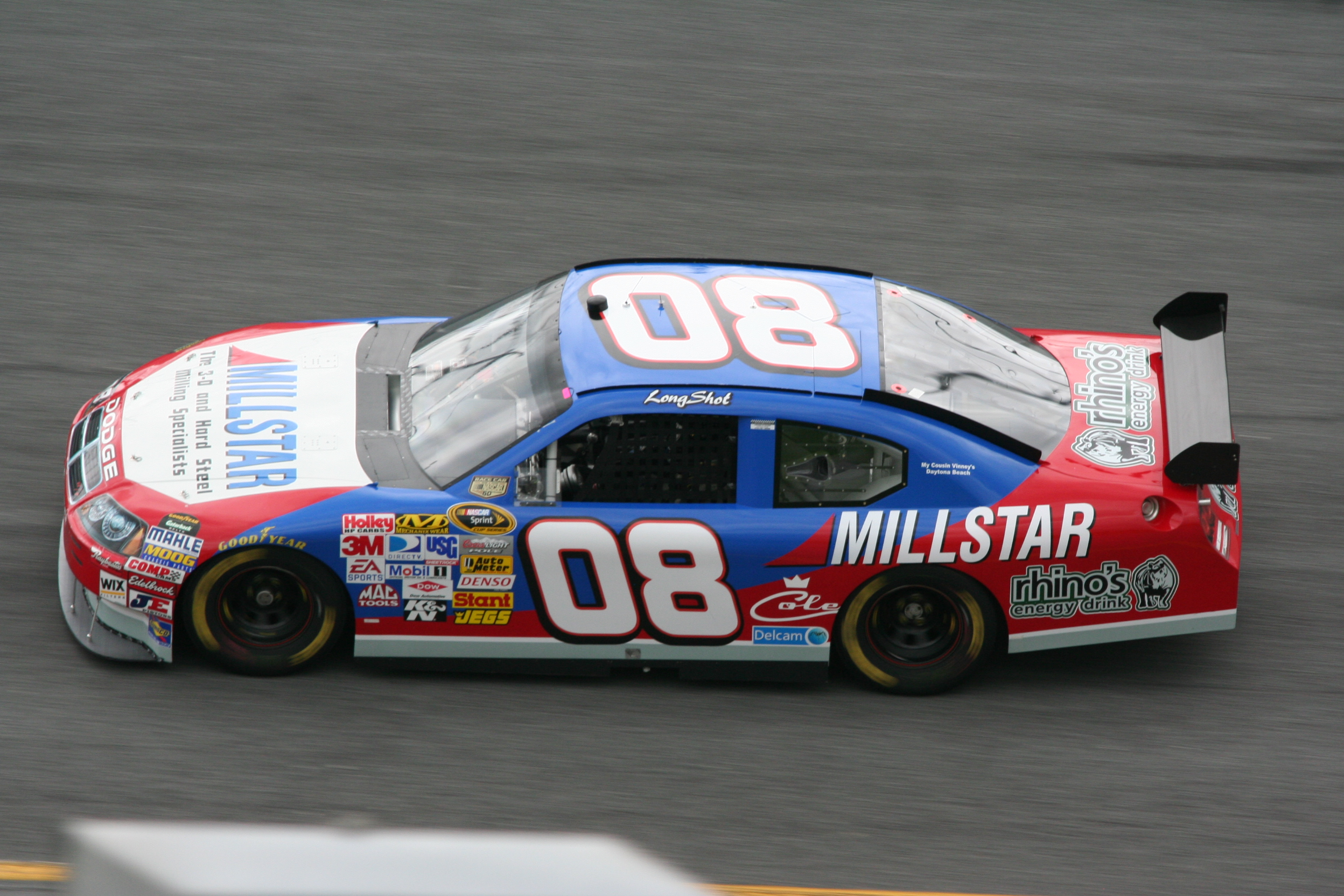 Shot by The Daredevil at Daytona during Speedweeks 2008